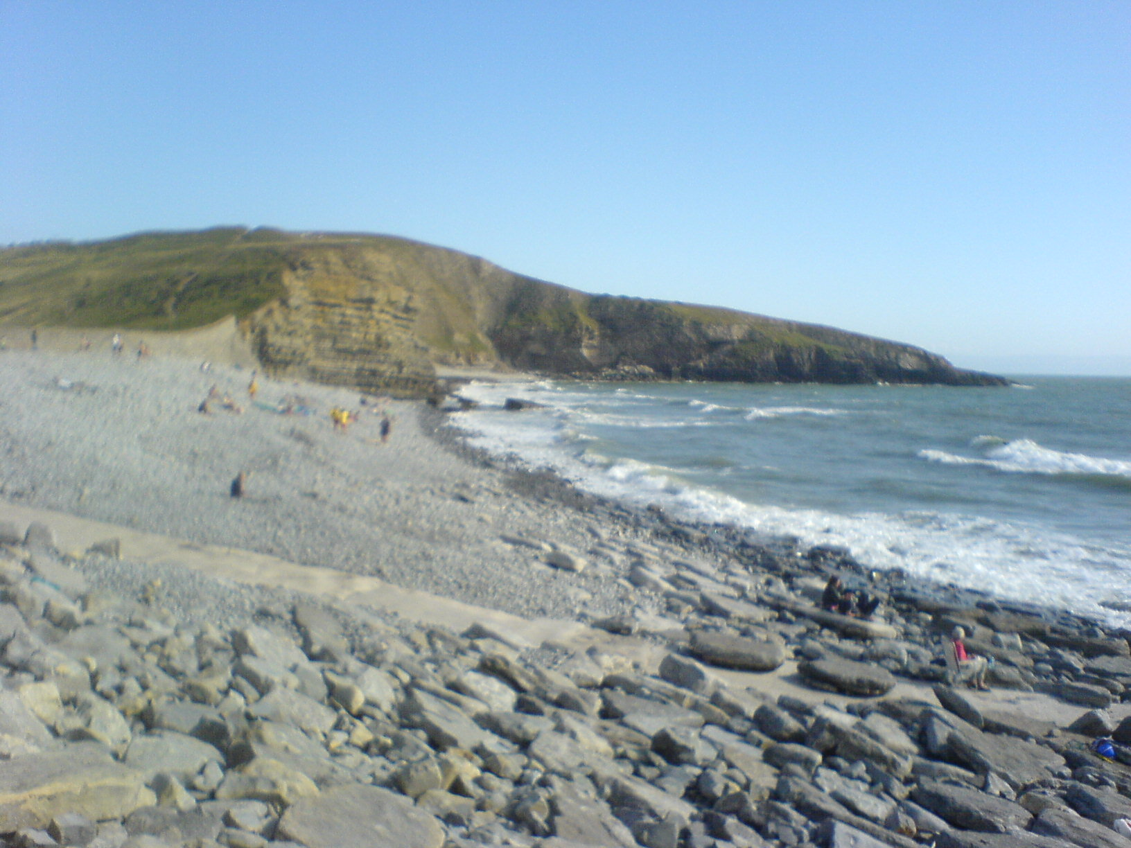 Southerndown beach. Taken by Andrew Wong